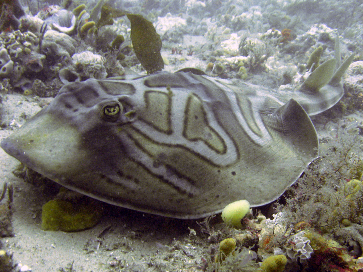 Photo of an Eastern Fiddler Ray (Trygonorrhina sp. A). Taken by David Breneman, Sunday, 18th of March at the Sewage Pipe, Nelson Bay, NSW, Australia.